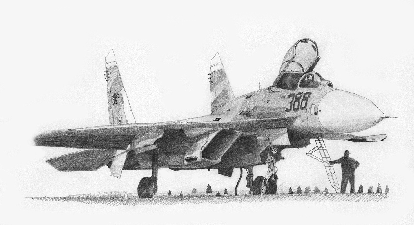 a draw of a Sukhoj Su-27 (Paris - Le Bourget - 1989)